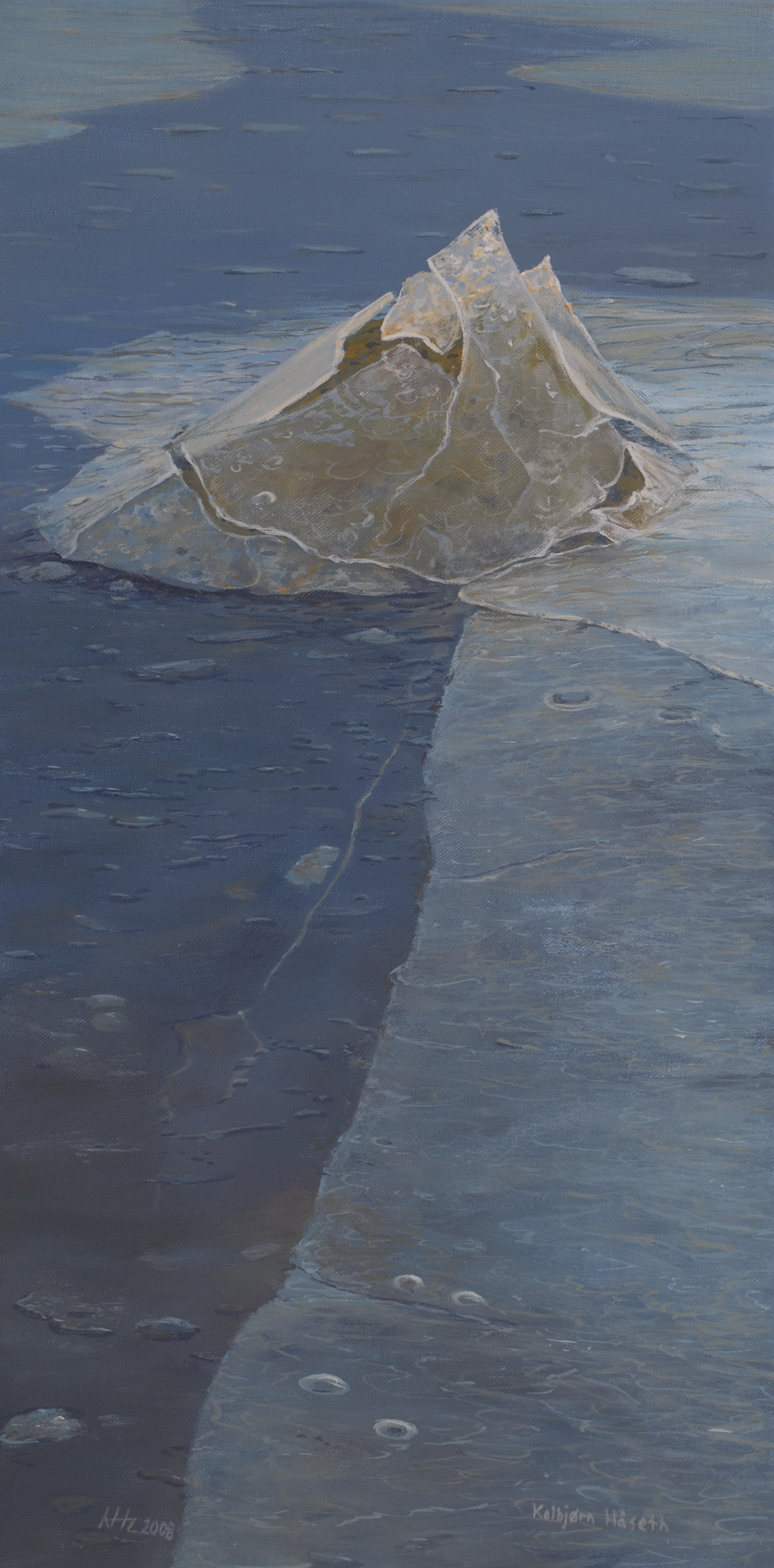 Picture of painting by Kolbjørn Håseth - "Surrendered", acrylic 2008, 60 cm x 30 cm